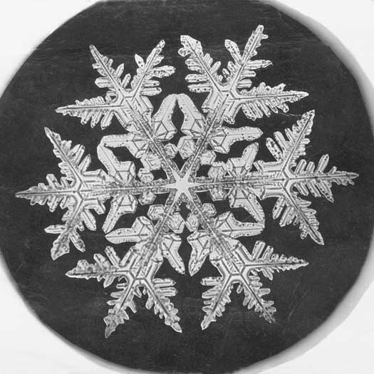 Type: Photographs Date: 1890 Image ID: RU 31 Box 12 Folder 17 Description: Wilson A. Bentley first became fascinated with snow during his childhood on a Vermont farm, and he experimented for years with ways to view individual snowflakes in order to study their crystalline structure. He eventually attached a camera to his microscope, and in 1885 he successfully photographed the flakes. This photomicrograph and more than five thousand others supported the belief that no two snowflakes are alike, leading scientists to study his work and publish it in numerous scientific articles and magazines. In 1903 Bentley sent prints of his snowflakes to the Smithsonian, hoping they might be of interest to Secretary Samuel P. Langley. Persistent URL:Link to data base record Repository:Smithsonian Institution Archives View more collections from the Smithsonian Institution.